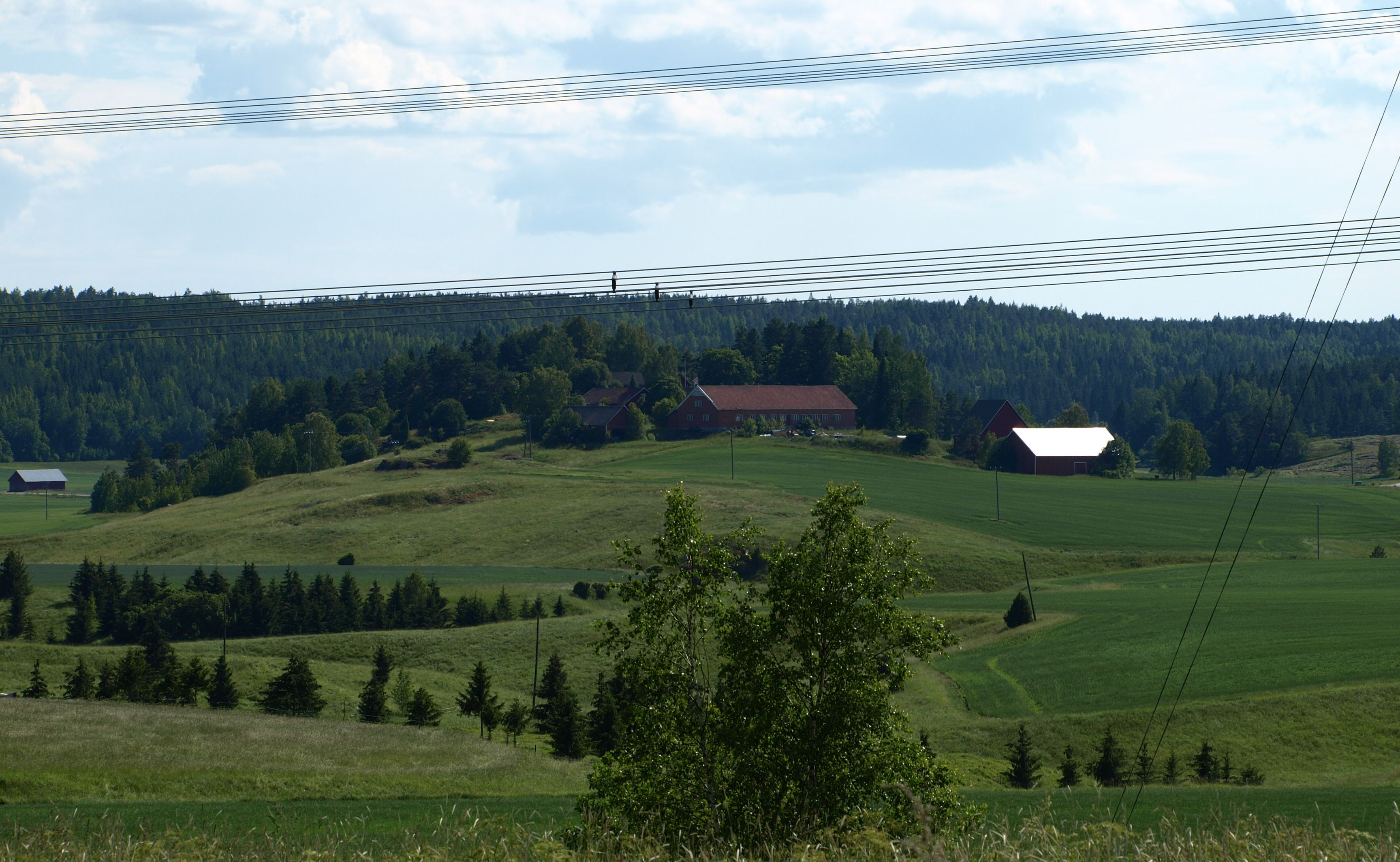 Village of Immala in Halikko, Finland